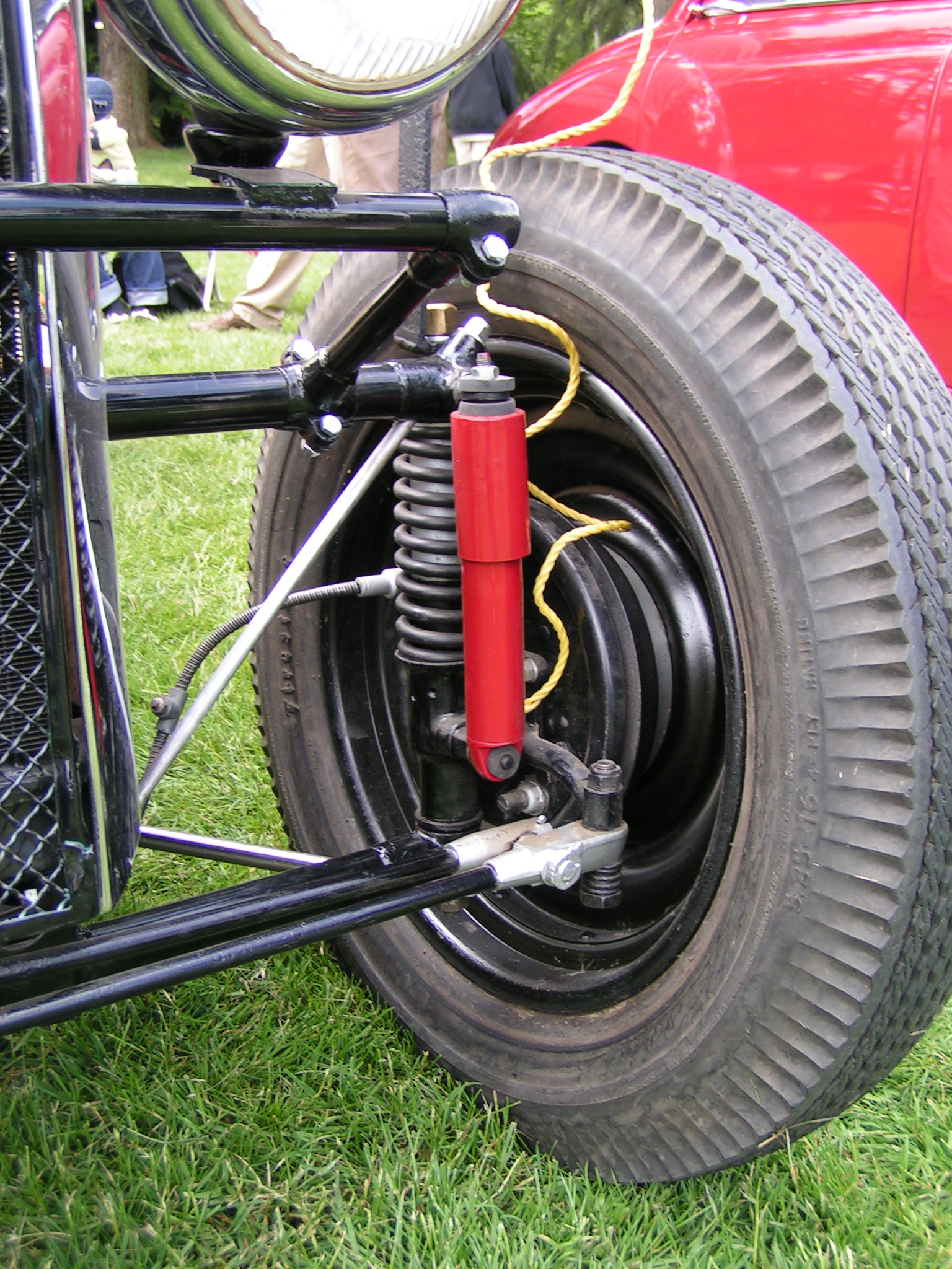 Morgan unfinished - Sliding Pillar suspensionMorgan unfinished - Sliding Pillar Suspension